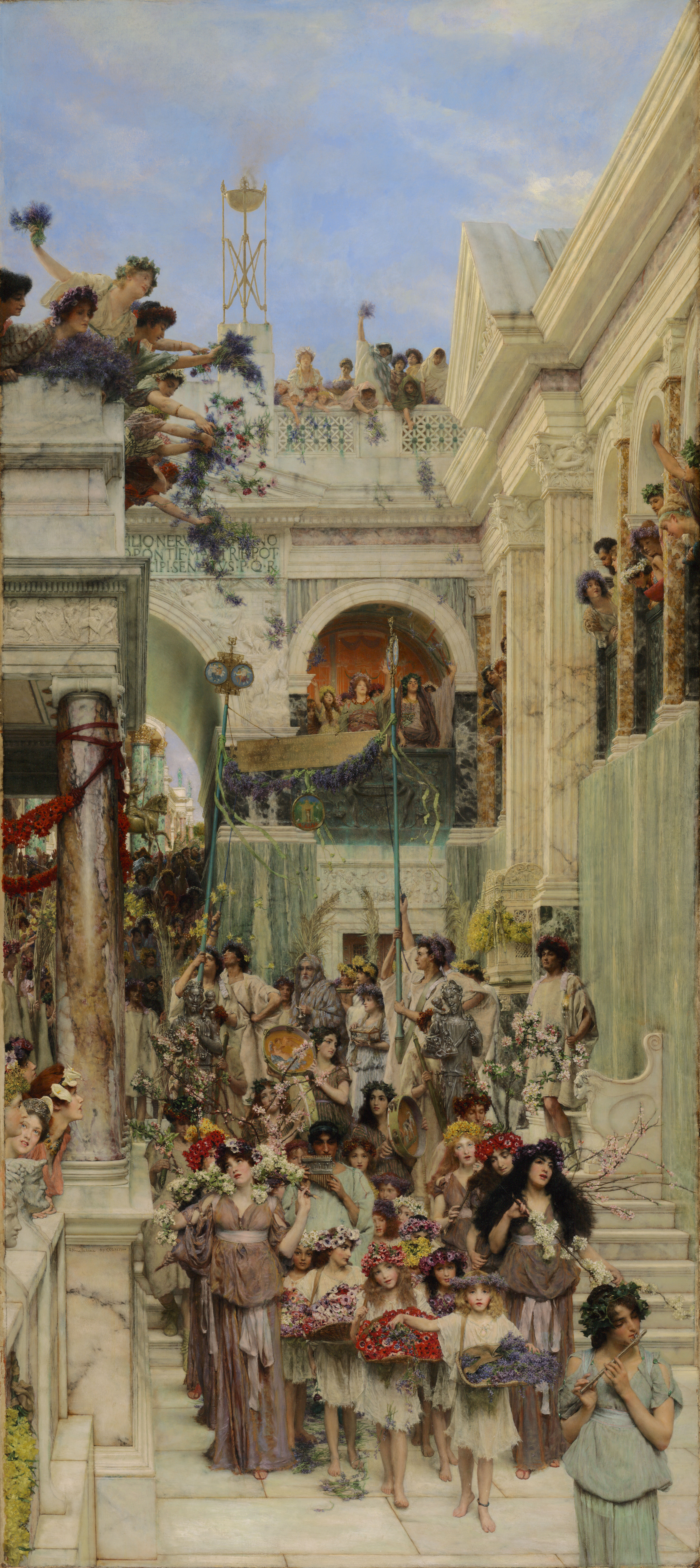 Detail:PLEASE BE AWARE, THE FILES HAVE A PORTION OF THE BOTTOM OF THE PICTURE CUTOFF; described is the Victorian custom to send the children into the country to gather flowers on May 1st. The Scene is placed in ancient Rome.